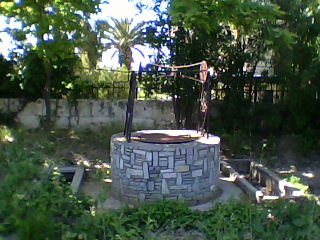 Yerakini, Murlaka's well, reconstructed, Chalkidiki, Greece